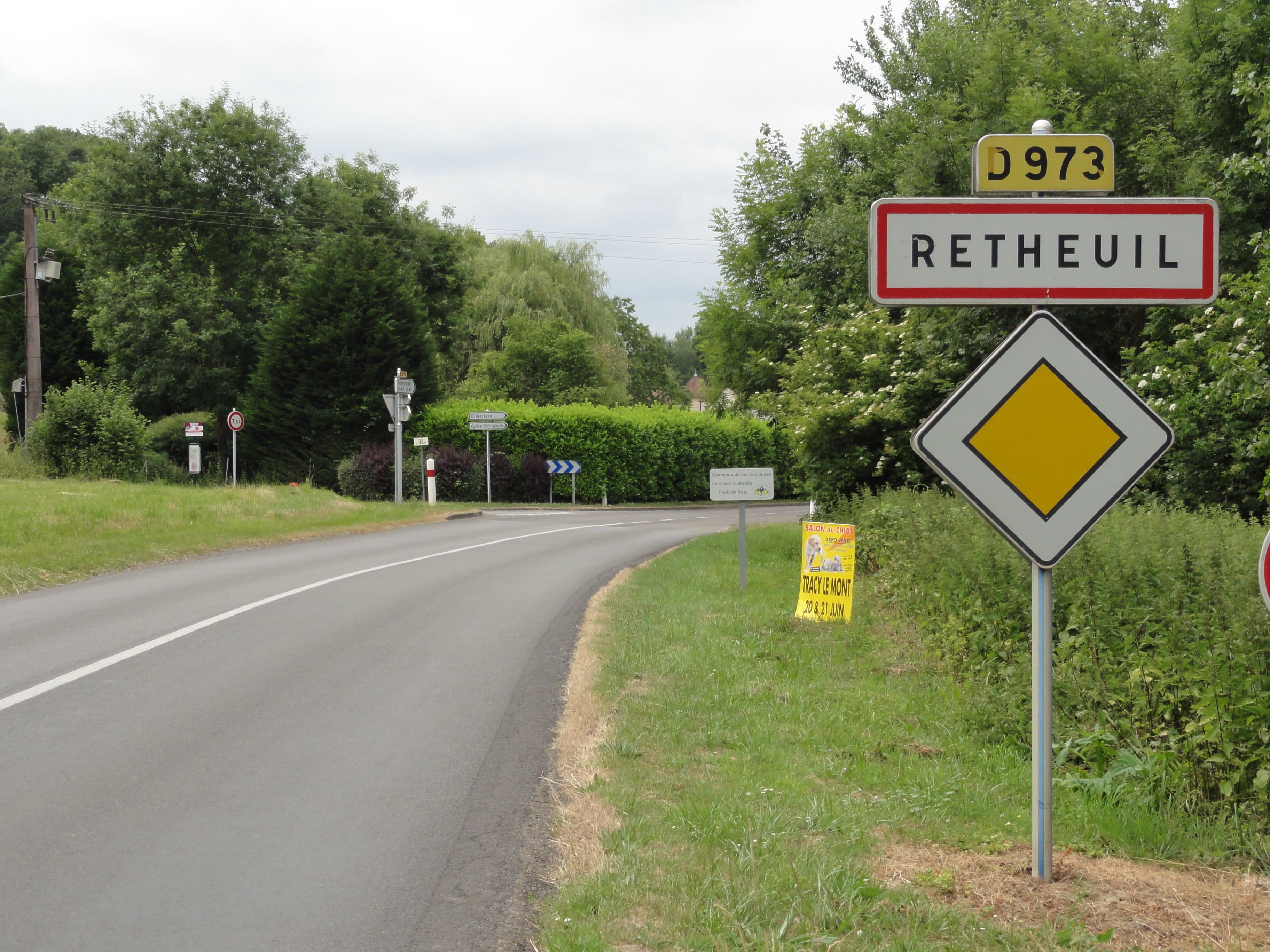 Retheuil (Aisne) city limit sign